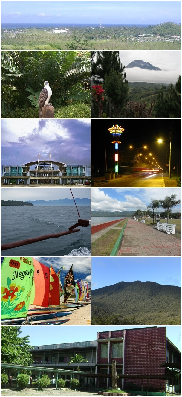 A montage of Davao Region, Philippines